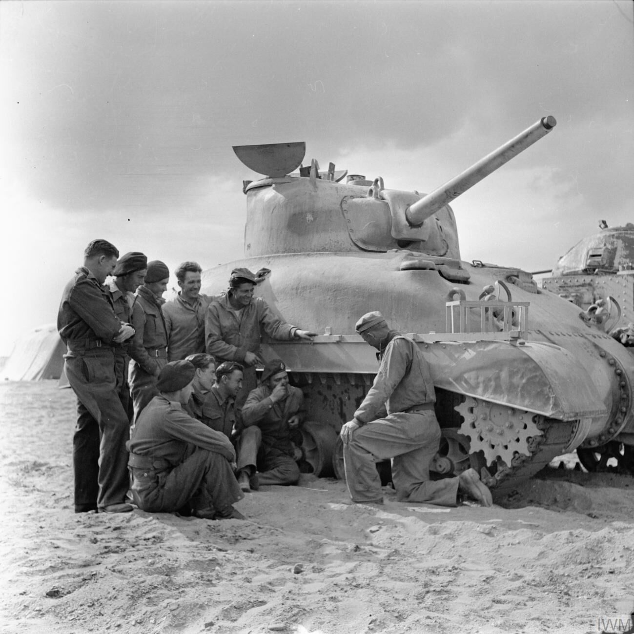 The British Army in North Africa 1943 English, South African and New Zealander tank crews receive instruction on the Sherman tank by an American instructor at Dab el Haag training camp near Cairo, 24 February 1943.